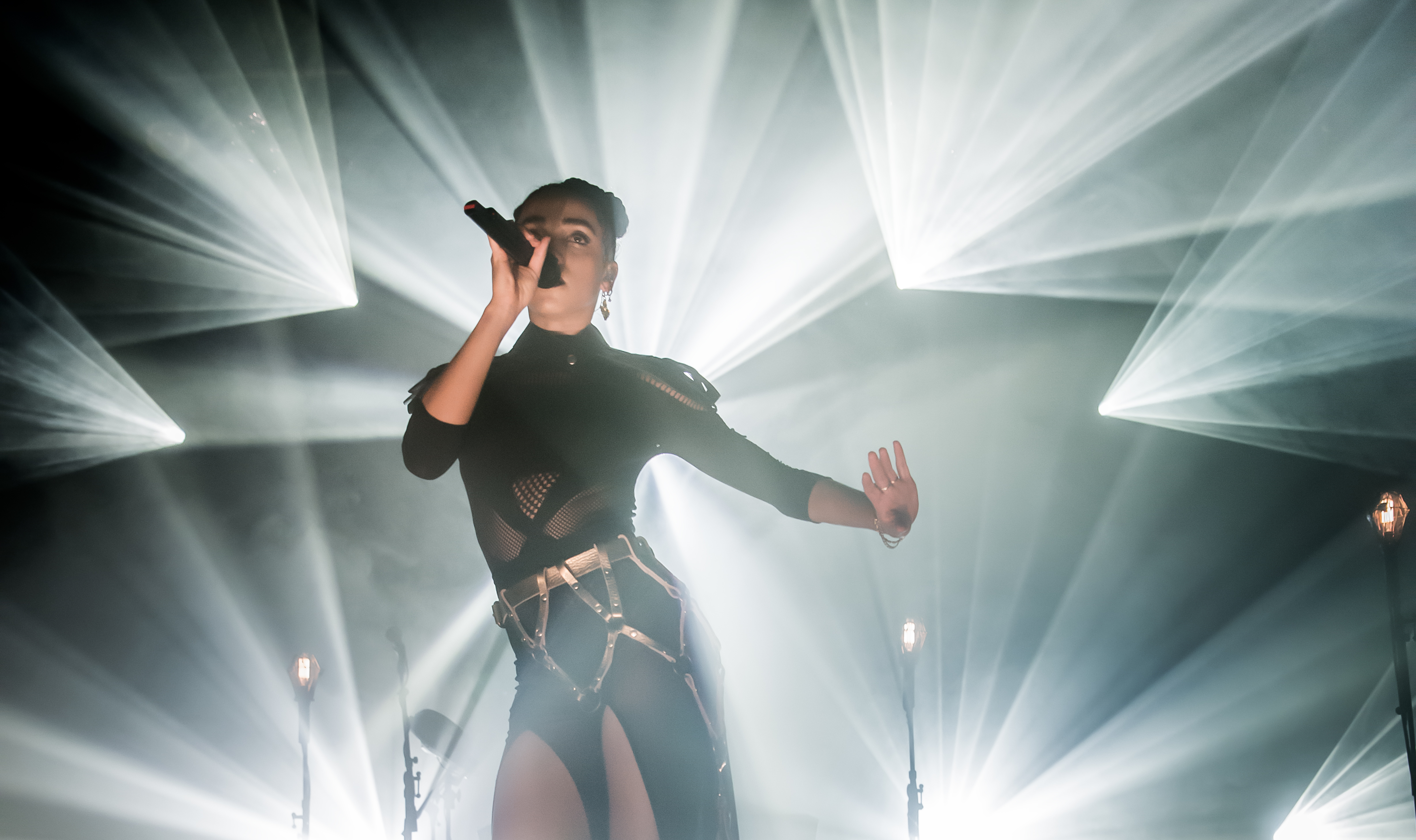 fka twigs concert live in berlin